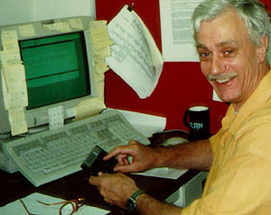 Jan van Paradijs at work at NASA/Marshall in early 1993 during BATSE observations aboard the Compton Gamma Ray Observatory.